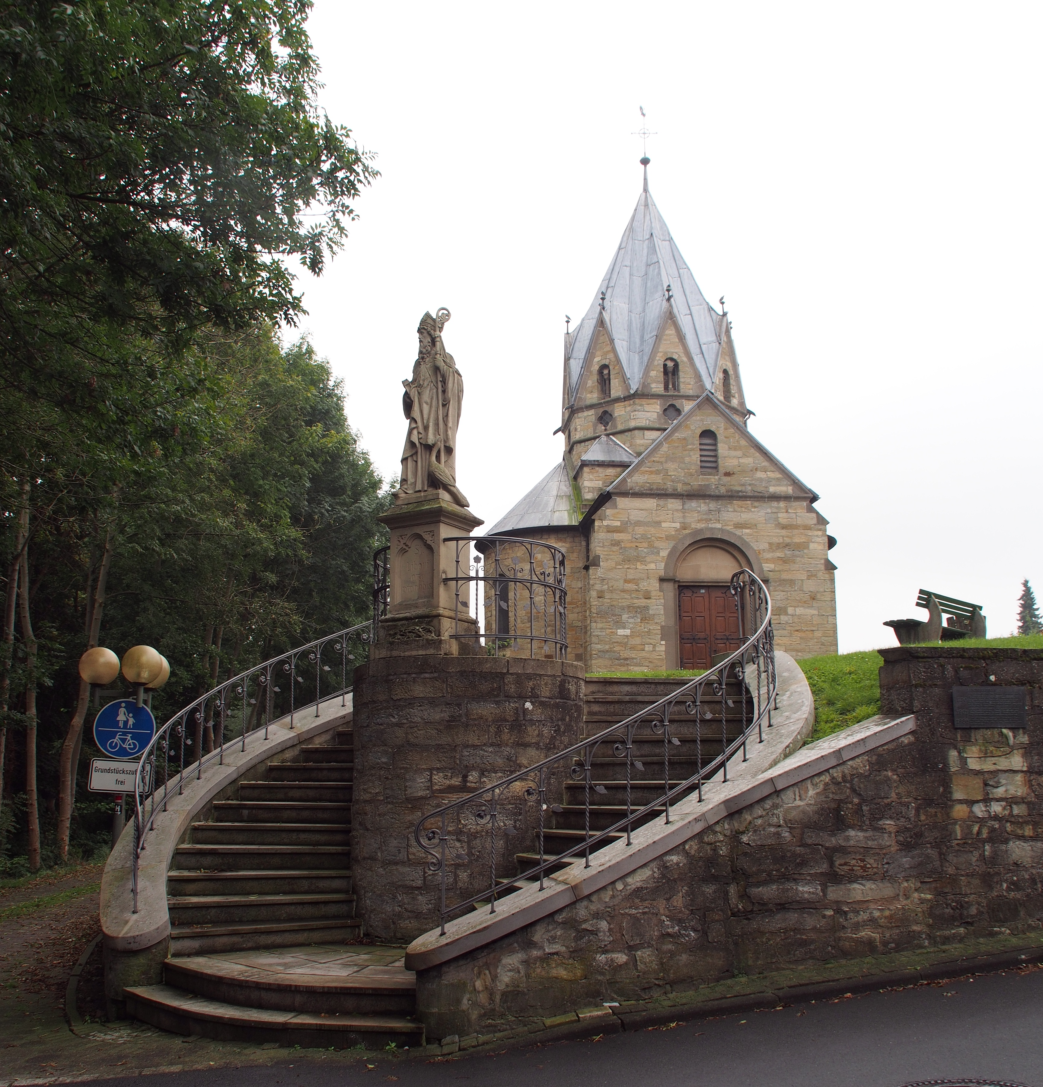 Front view of the "Liborius Kapelle", Salzkotten, Germany